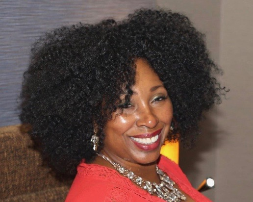 Jo Martin